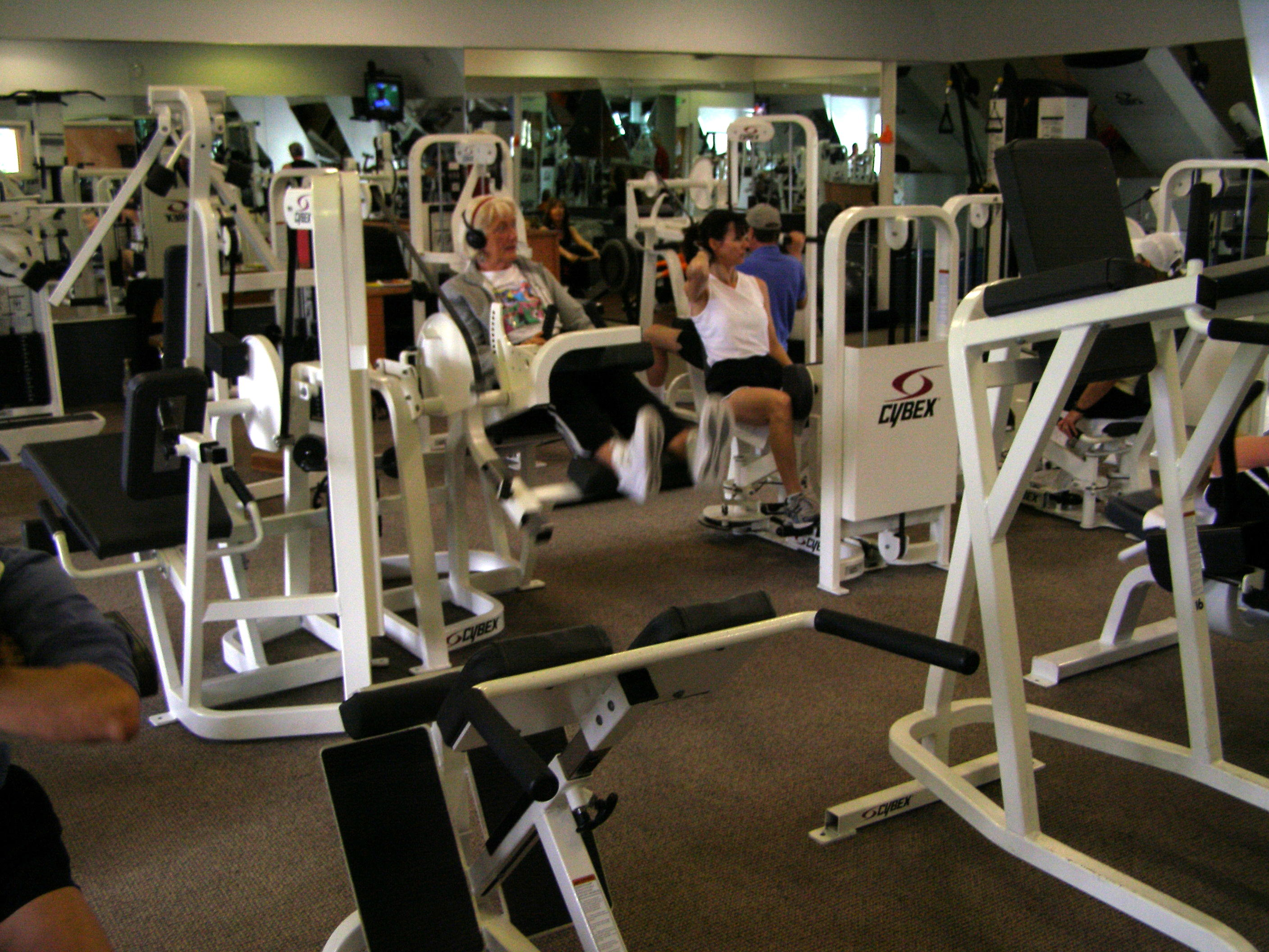 A fitness club that is illuminated mostly by natural light.